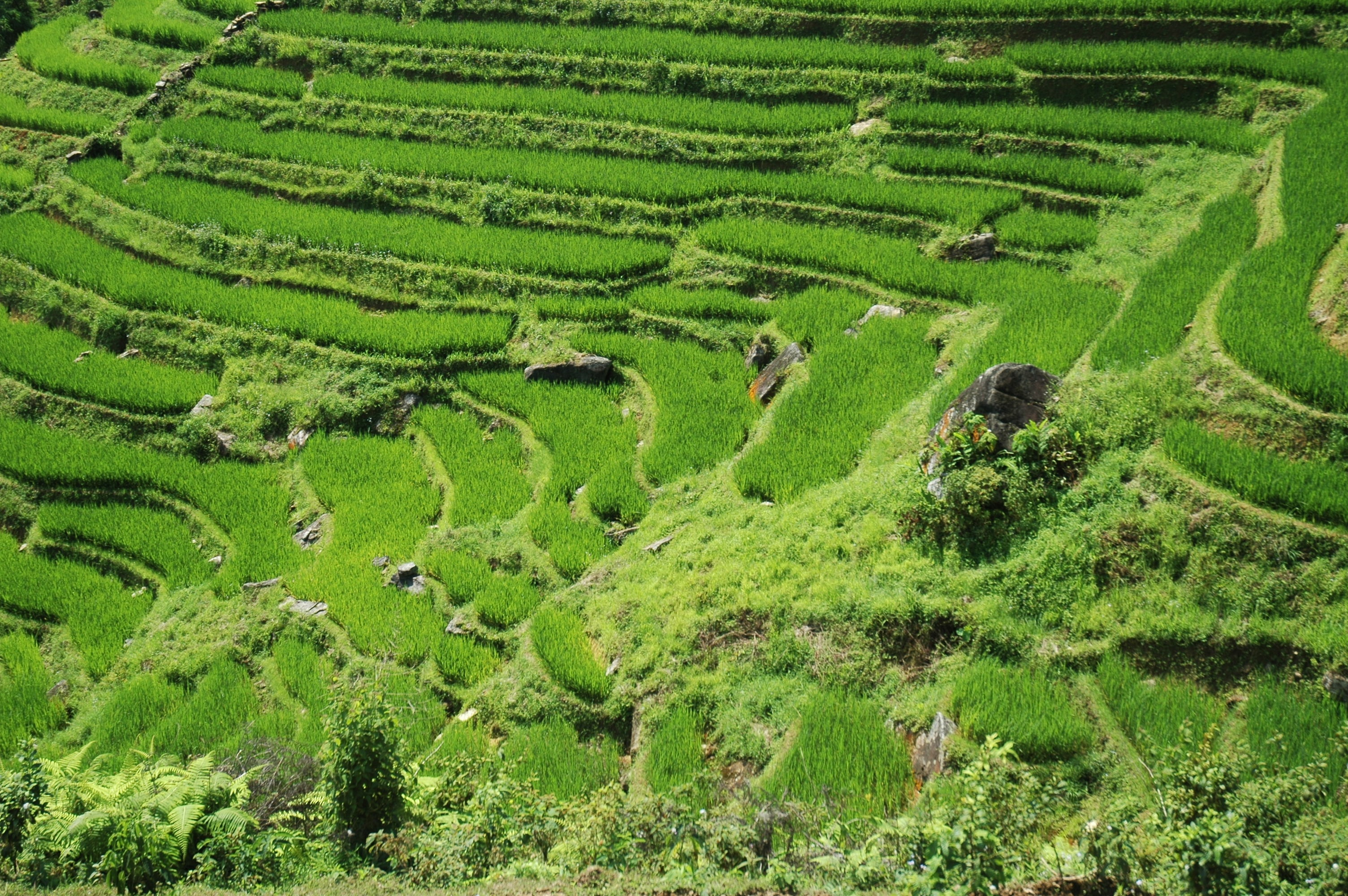 Rice fields near Sapa, Viêt Nam